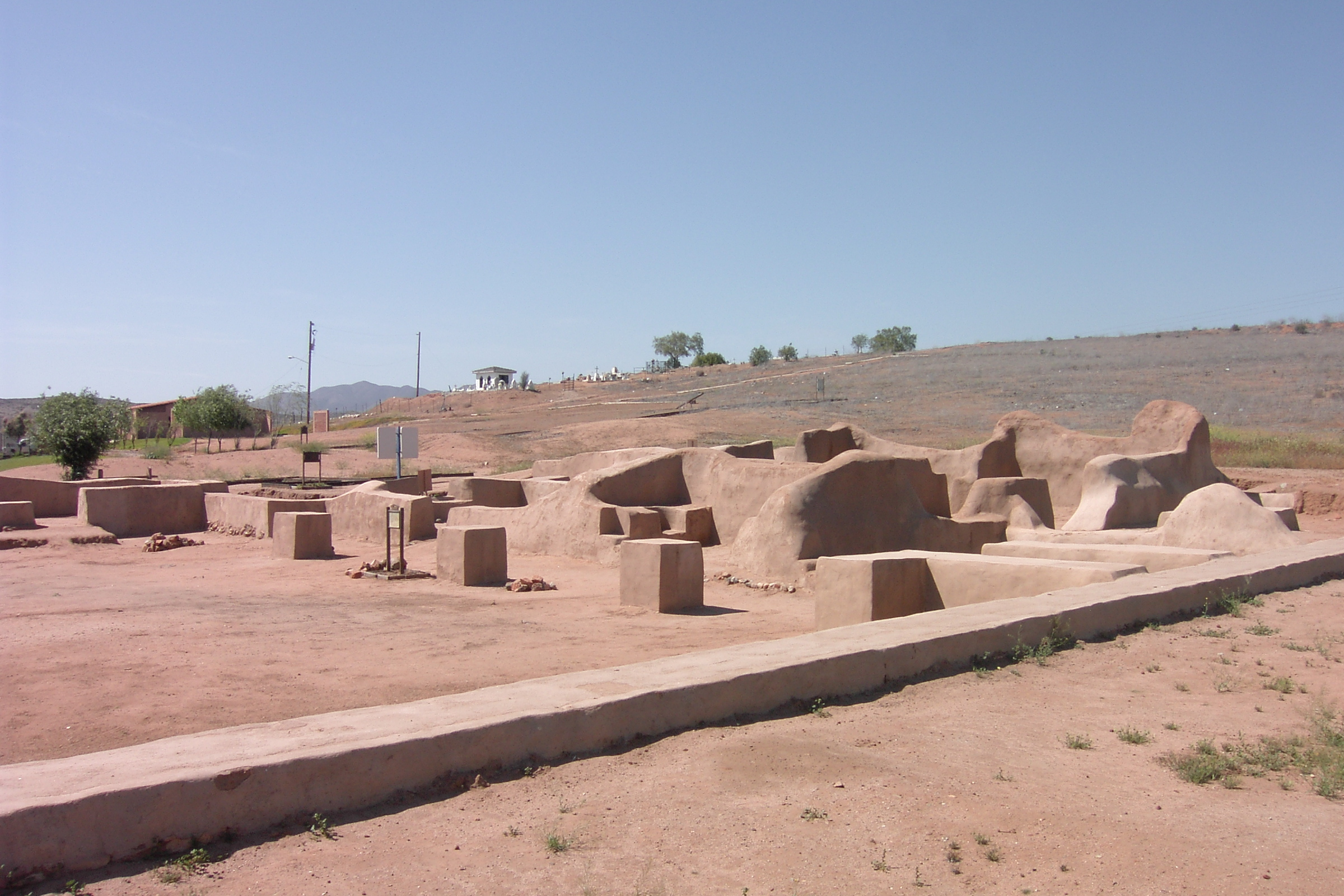 Photo of a general overview of the San Vicente Ferrer Mision taken on 20 may 2006.